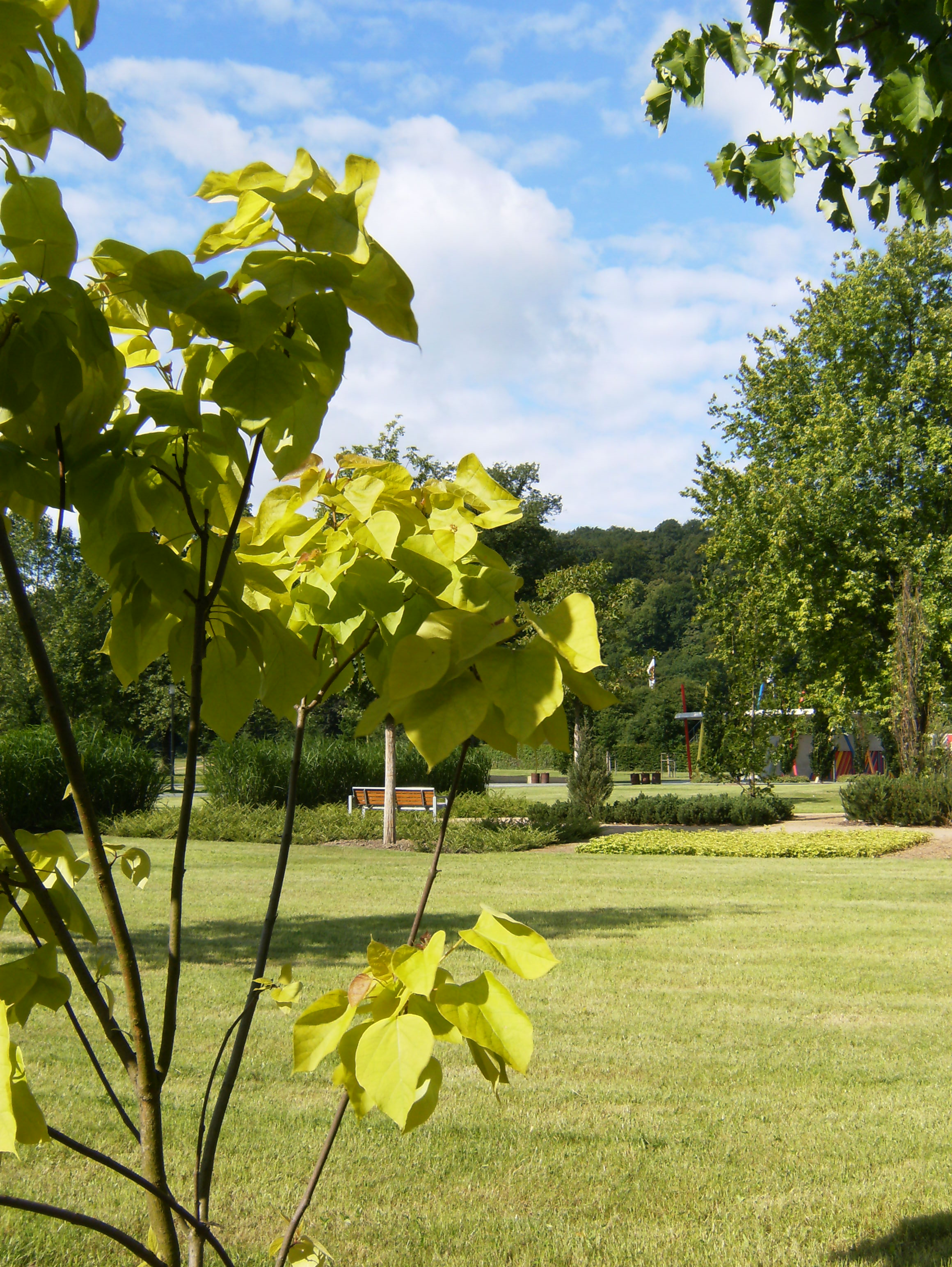 Hofwiesenpark, early summer impression 2009.